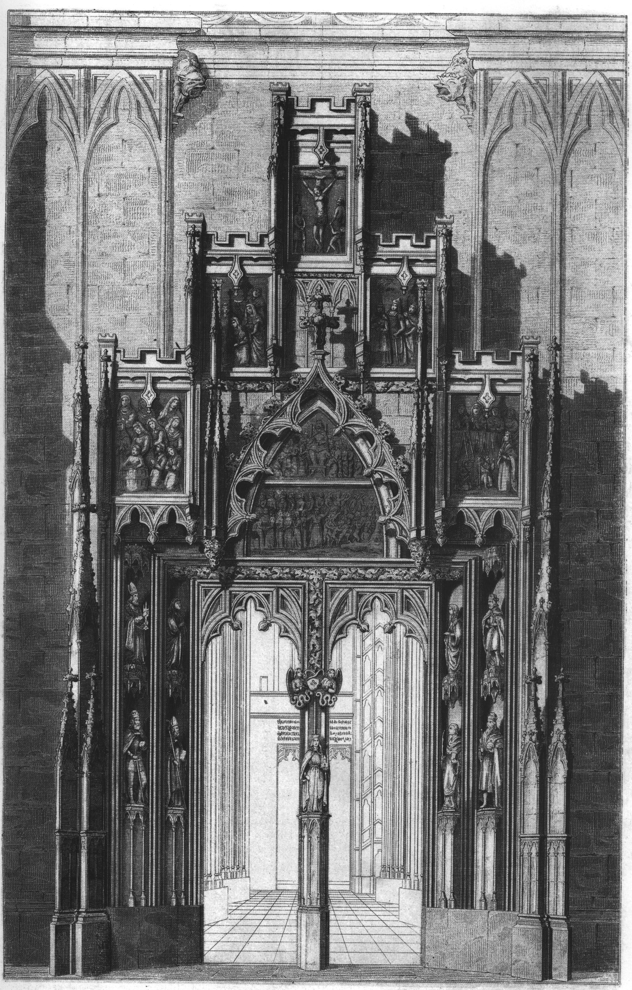 I. Henszlmann's reconstruction of the gate in the North transept. St. Elizabeth Cathedral, Kosice, Slovakia. Engrave by Fuchsthaller.